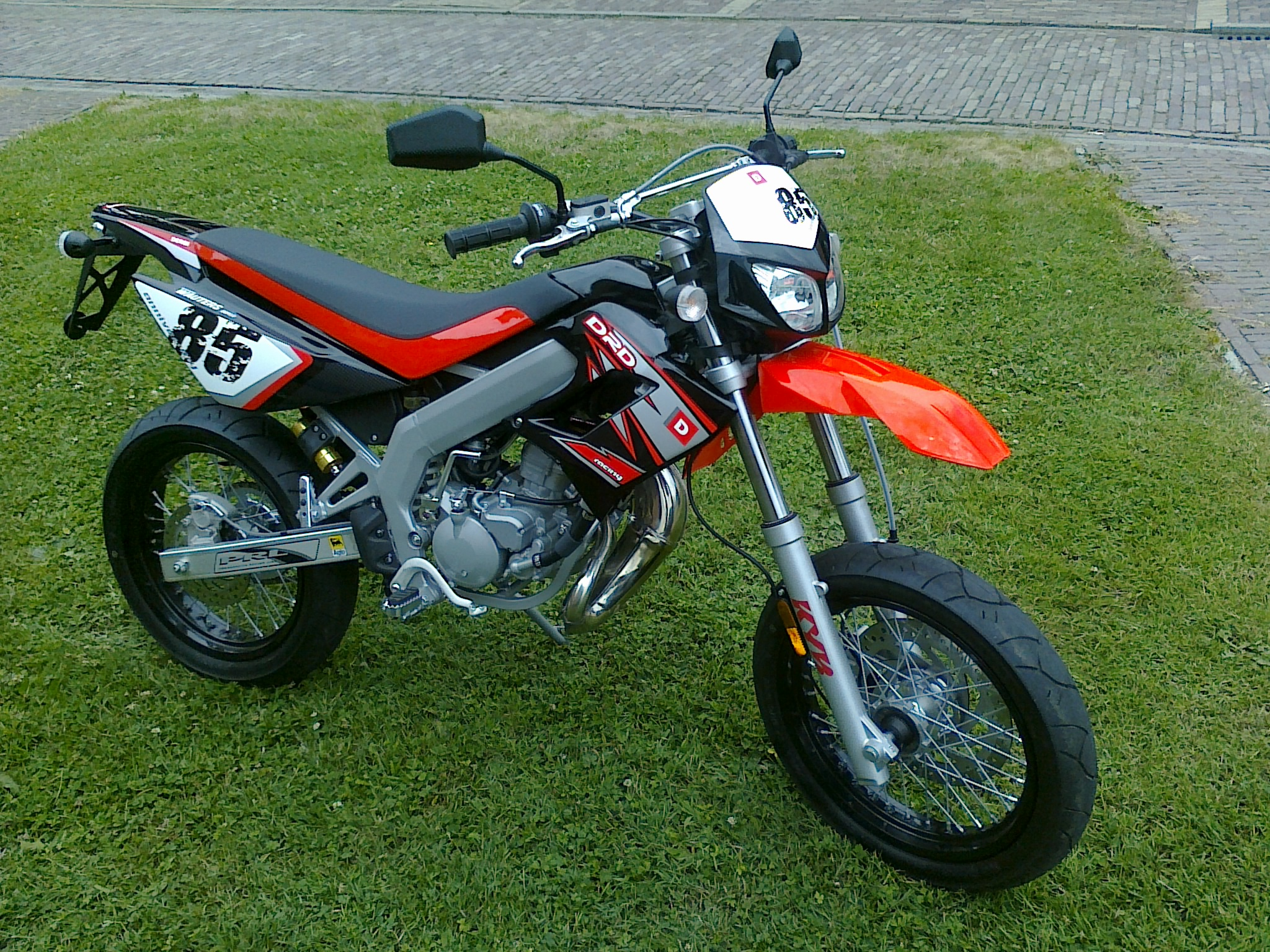 derbi drd racing